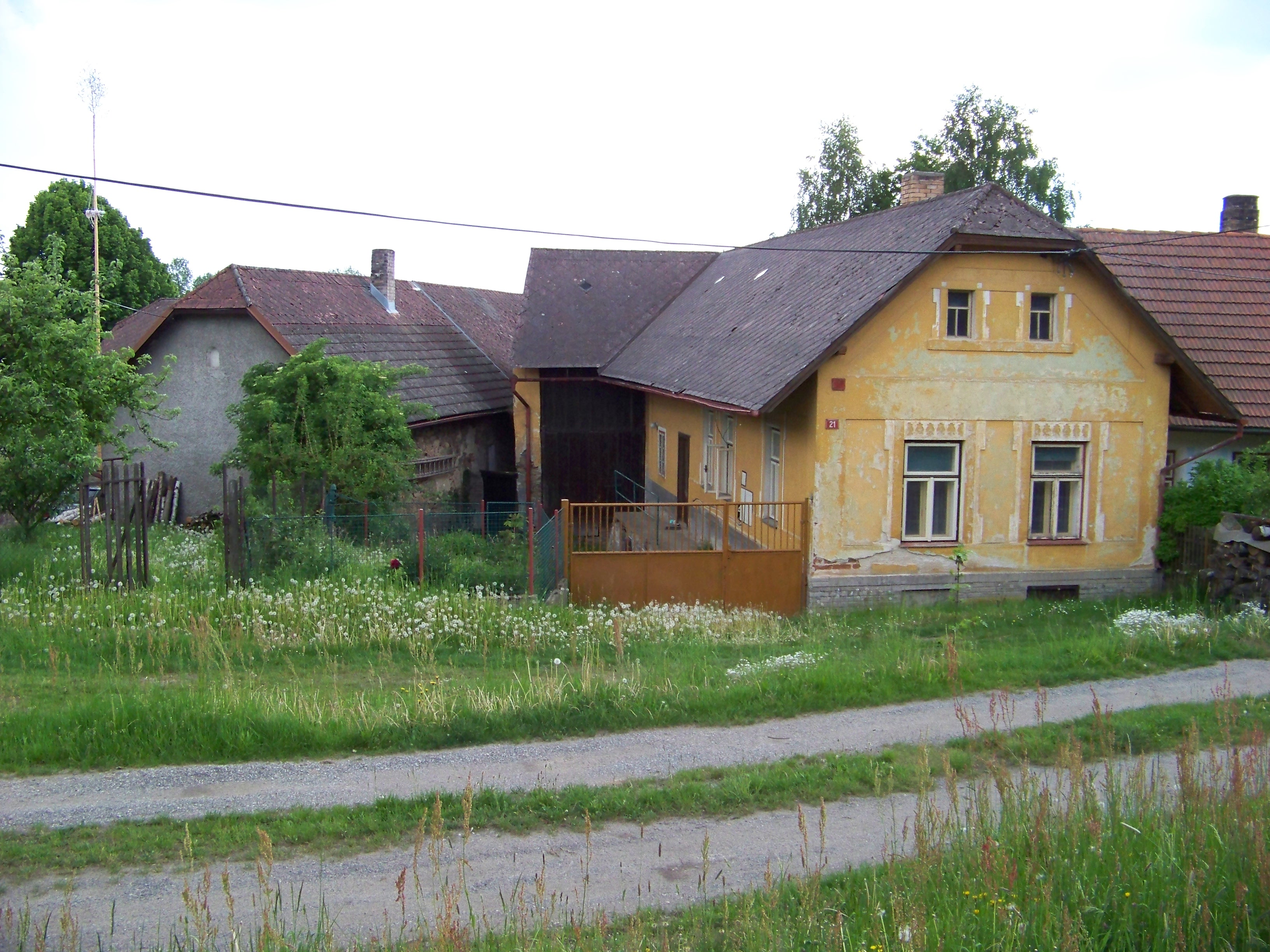 Červený Újezd, Benešov District, Central Bohemian Region, the Czech Republic. A house No. 21.